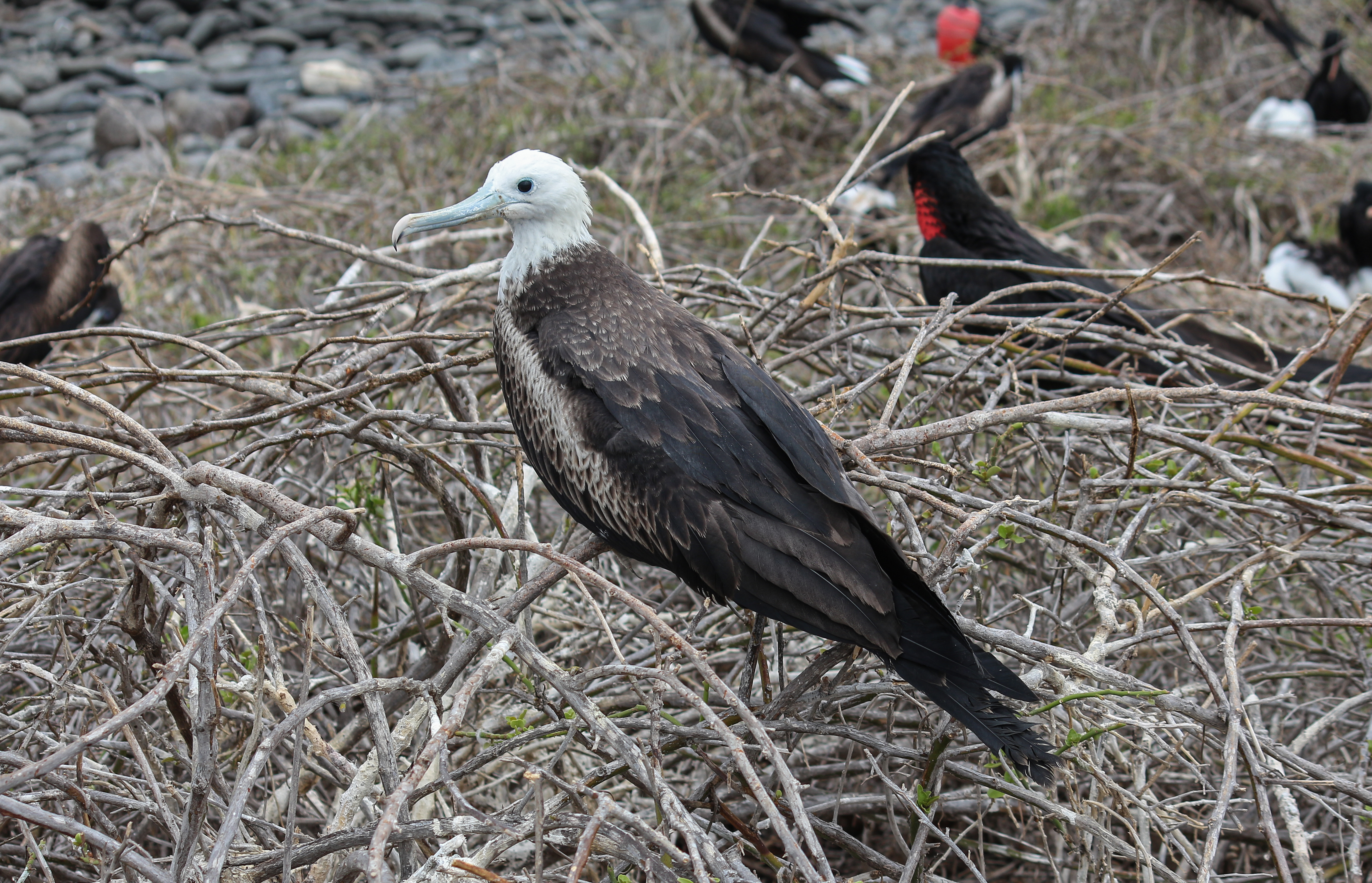 Female Magnificent frigatebird (Fregata magnificens) in Santa Cruz Island, Galápagos National Park, Ecuador